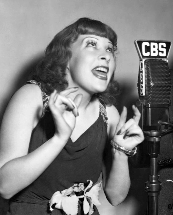 Photo of singer-actress Gertrude Niesen.